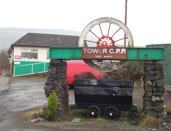 Tower Colliery dram, outside their security lodge/ pre packed coal Sales Office